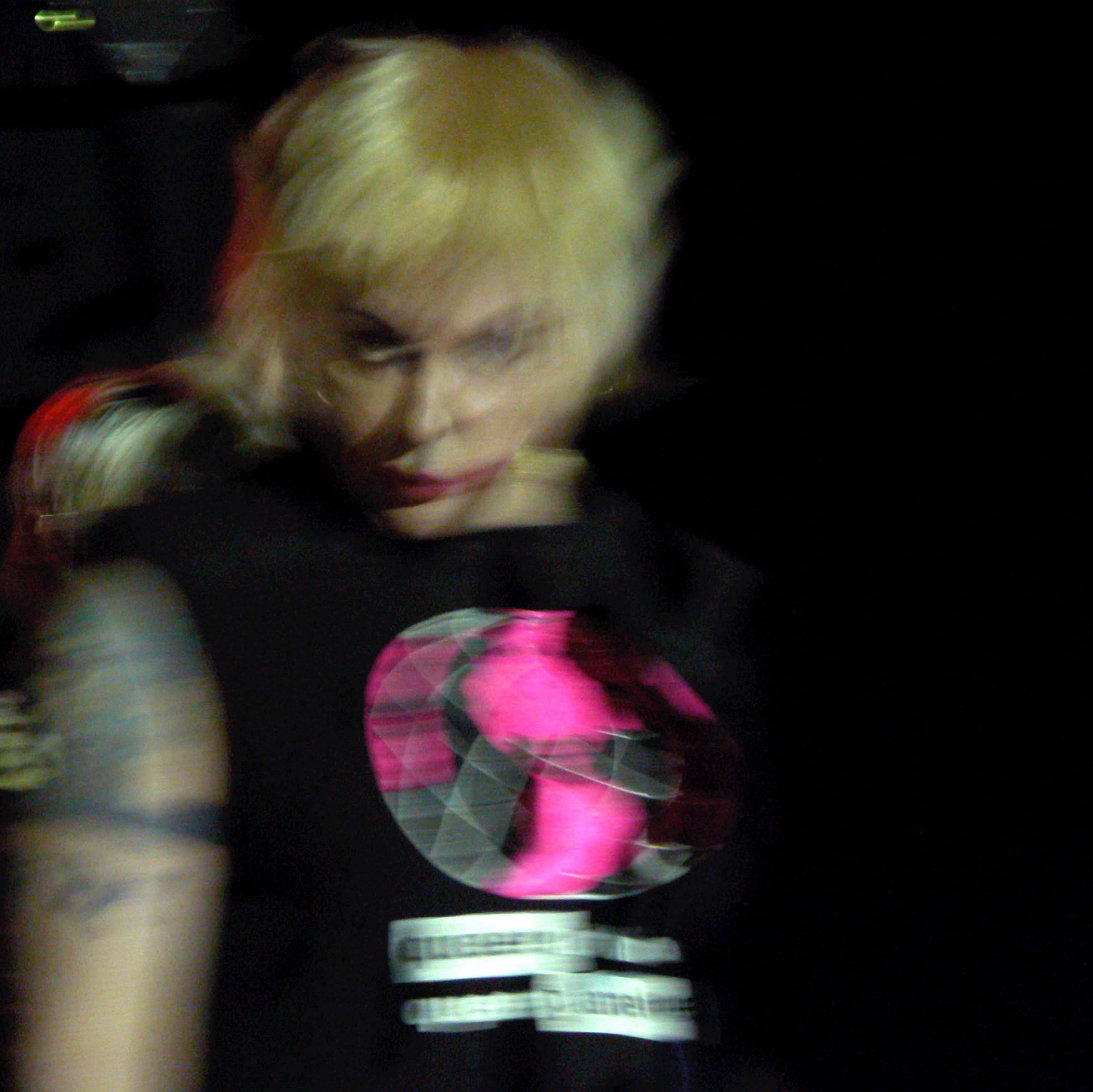 Psychic TV's Genesis P-Orridge